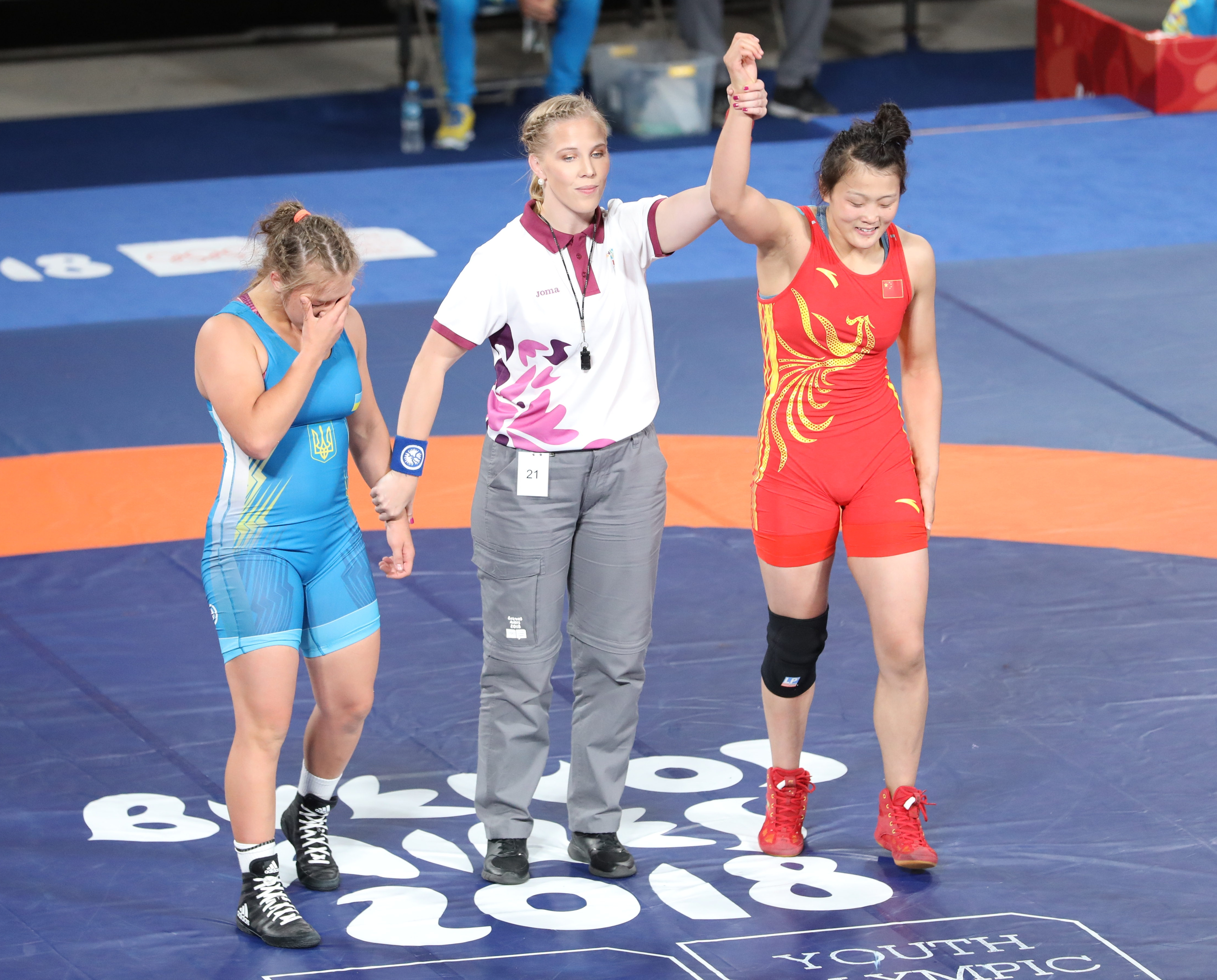 Wrestling, Freestyle, 65 kg female: Gold medal match/Final